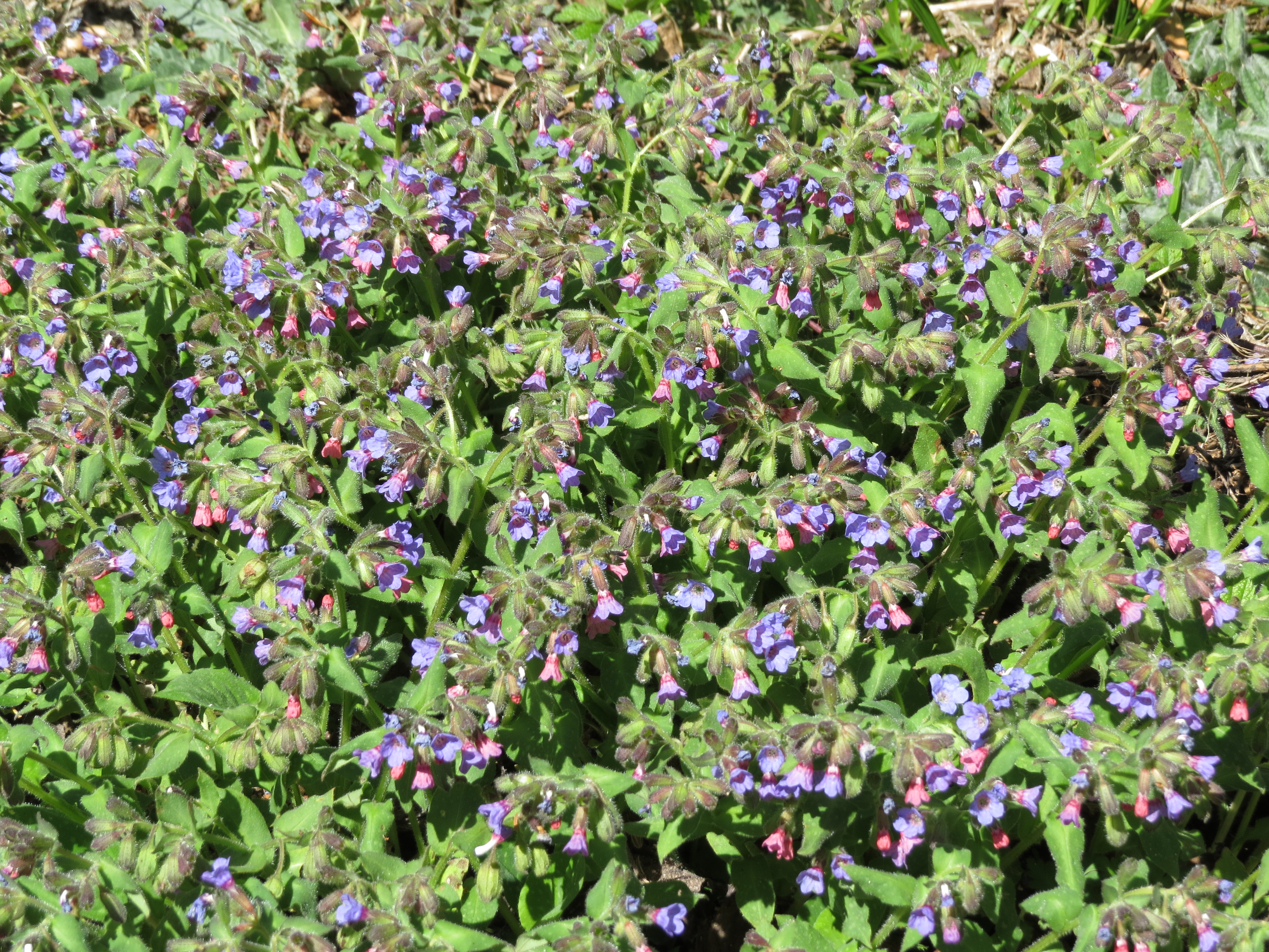 Pulmonaria officinalis (common lungwort) at Haltgraben, Frankenfels, Austria